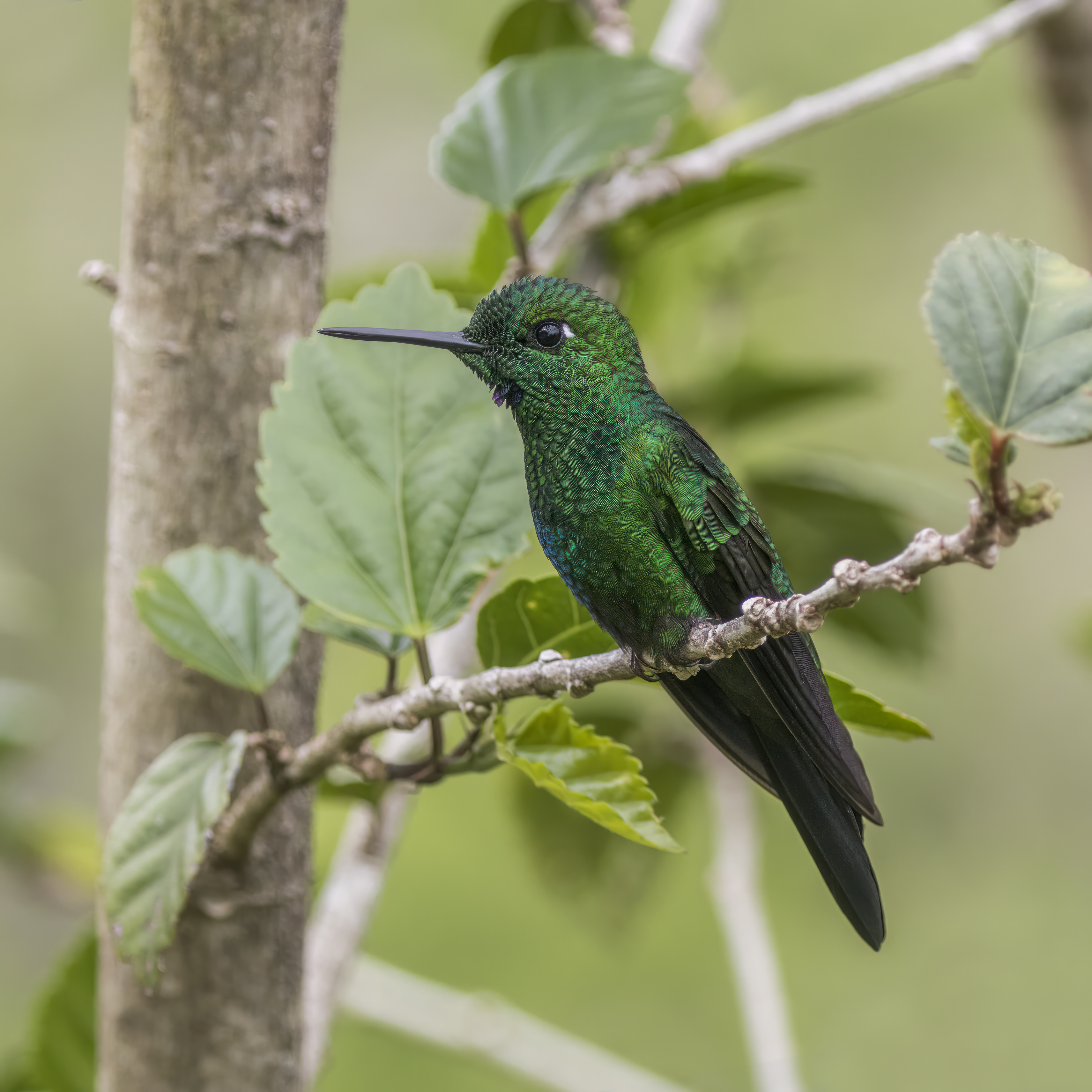 Green-crowned brilliant (Heliodoxa jacula henryi) male, Mount Totumas cloud forest, Panama